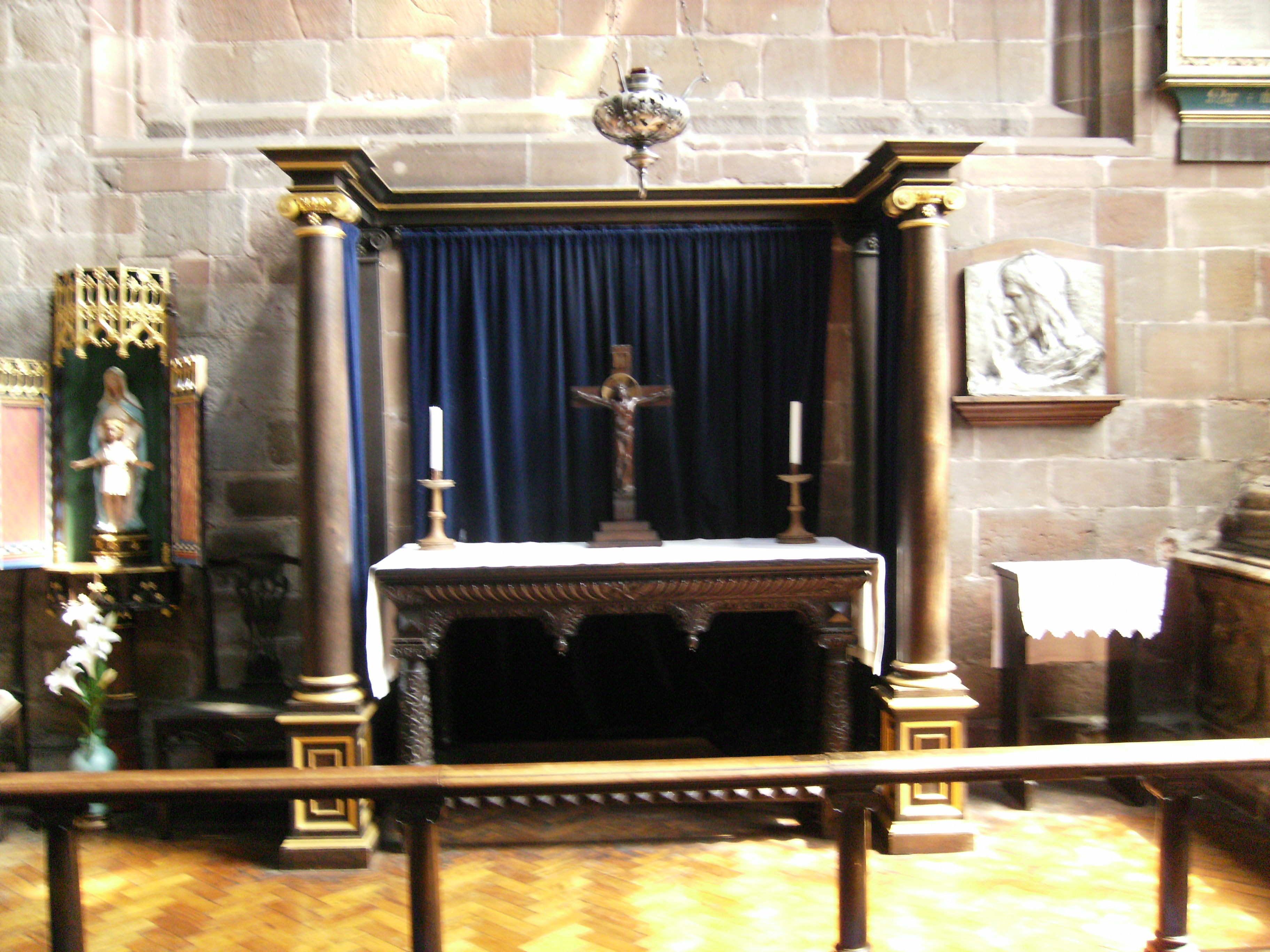 Altar, c. 1635, the centre of dispute between Puritans and Laudians, possibly consecrated by William Laud himself. St. Peter's Collegiate church, Wolverhampton, West Midlands, England. Parish of Central Wolverhampton WV1 1TS.